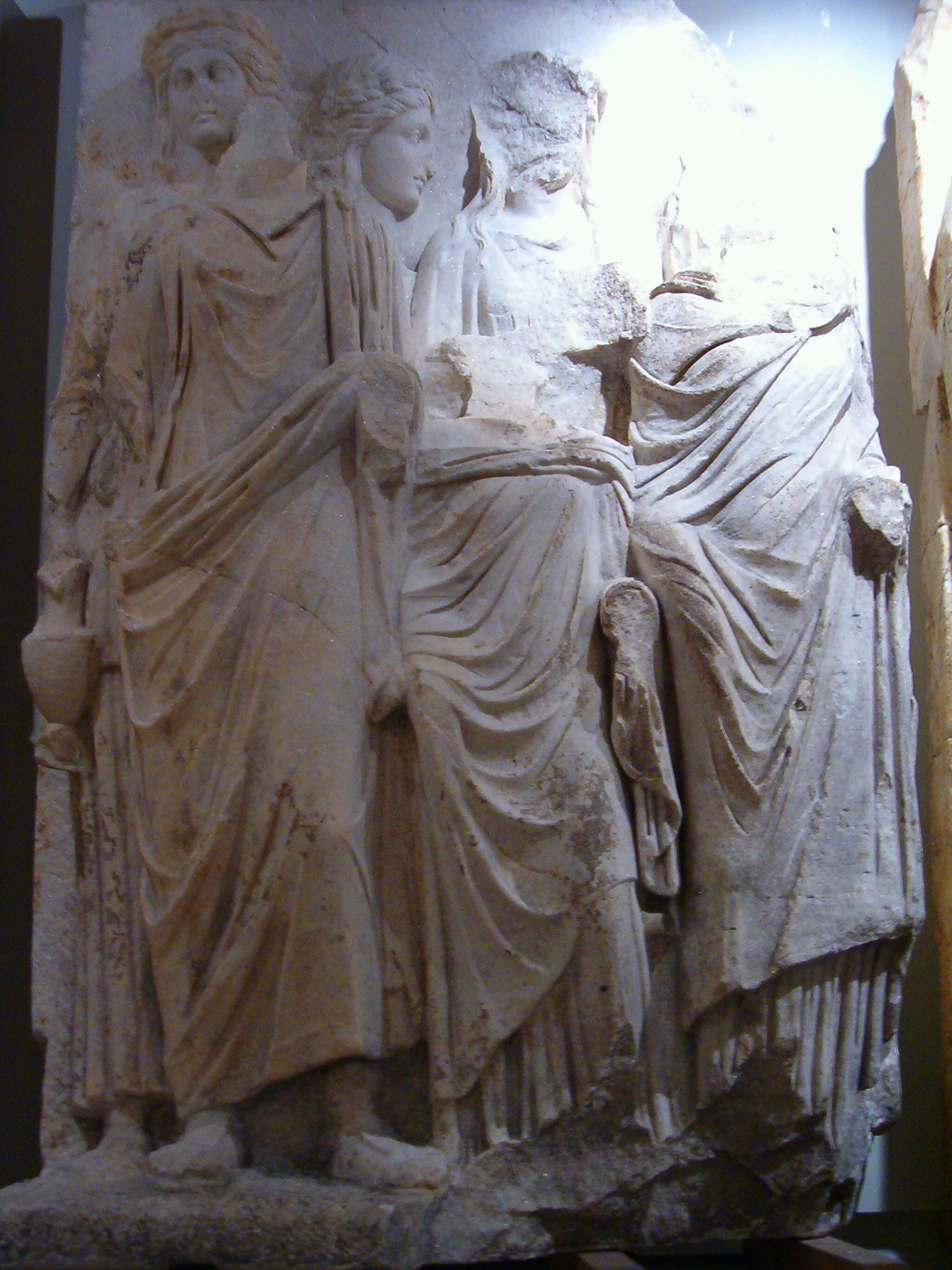 Female figures; from Ephesos (Ephesos-Museum, Hofburg, Vienna)